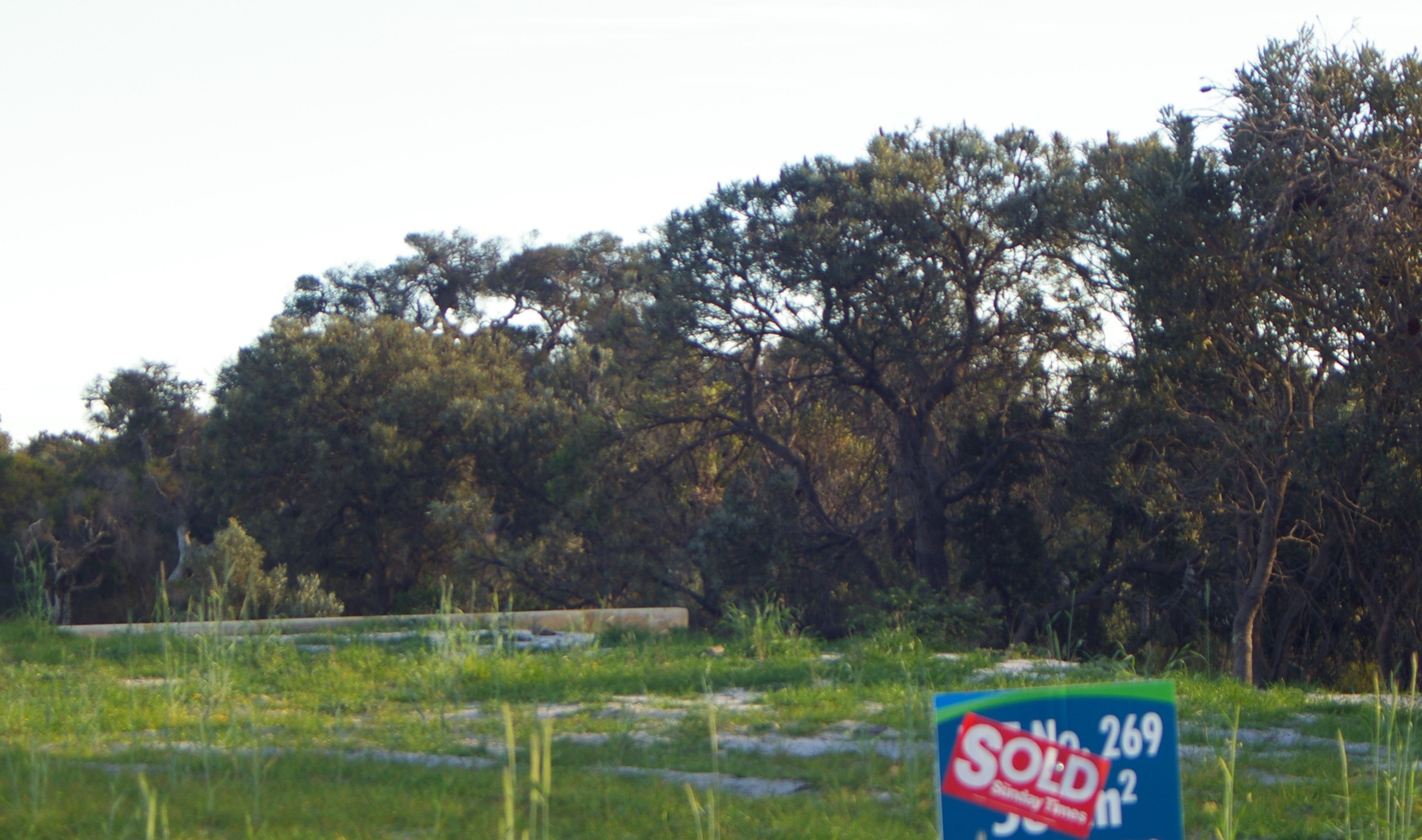 land clearing for housing is the biggest threat to the Banksia menziesii species, like this area in Canning Vale which will be cleared before the end of 2007